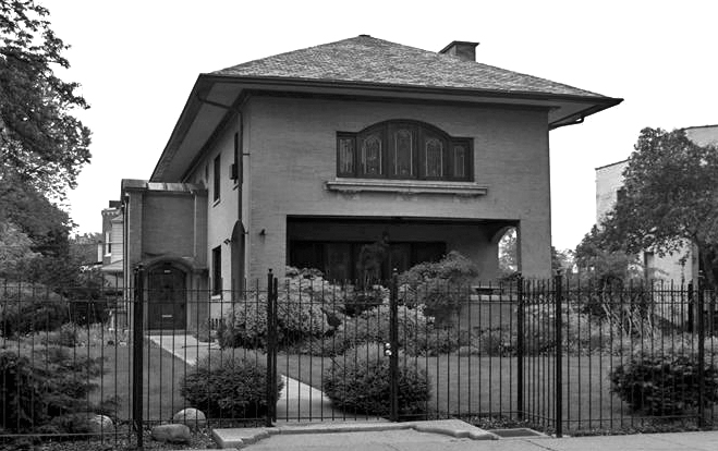 The John Rath House in Chicago Illinois designed in 1907 by the architect George W. Maher